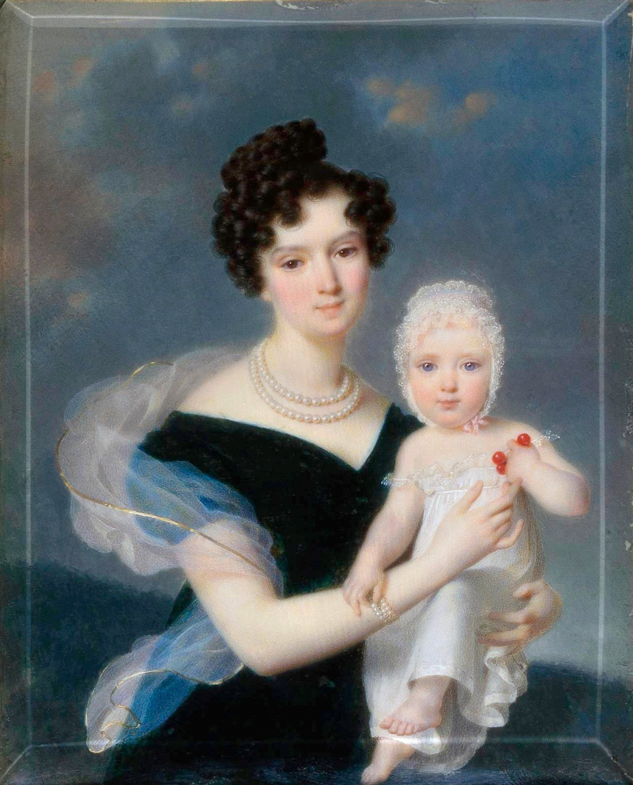 Countess Zofia Branicka (1790–1879) - a Polish noble woman, art collector. She was married to Artur Potocki since 1816.